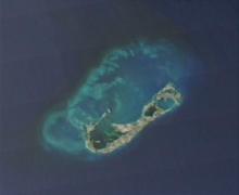 Satellite picture of the Bermuda Islands